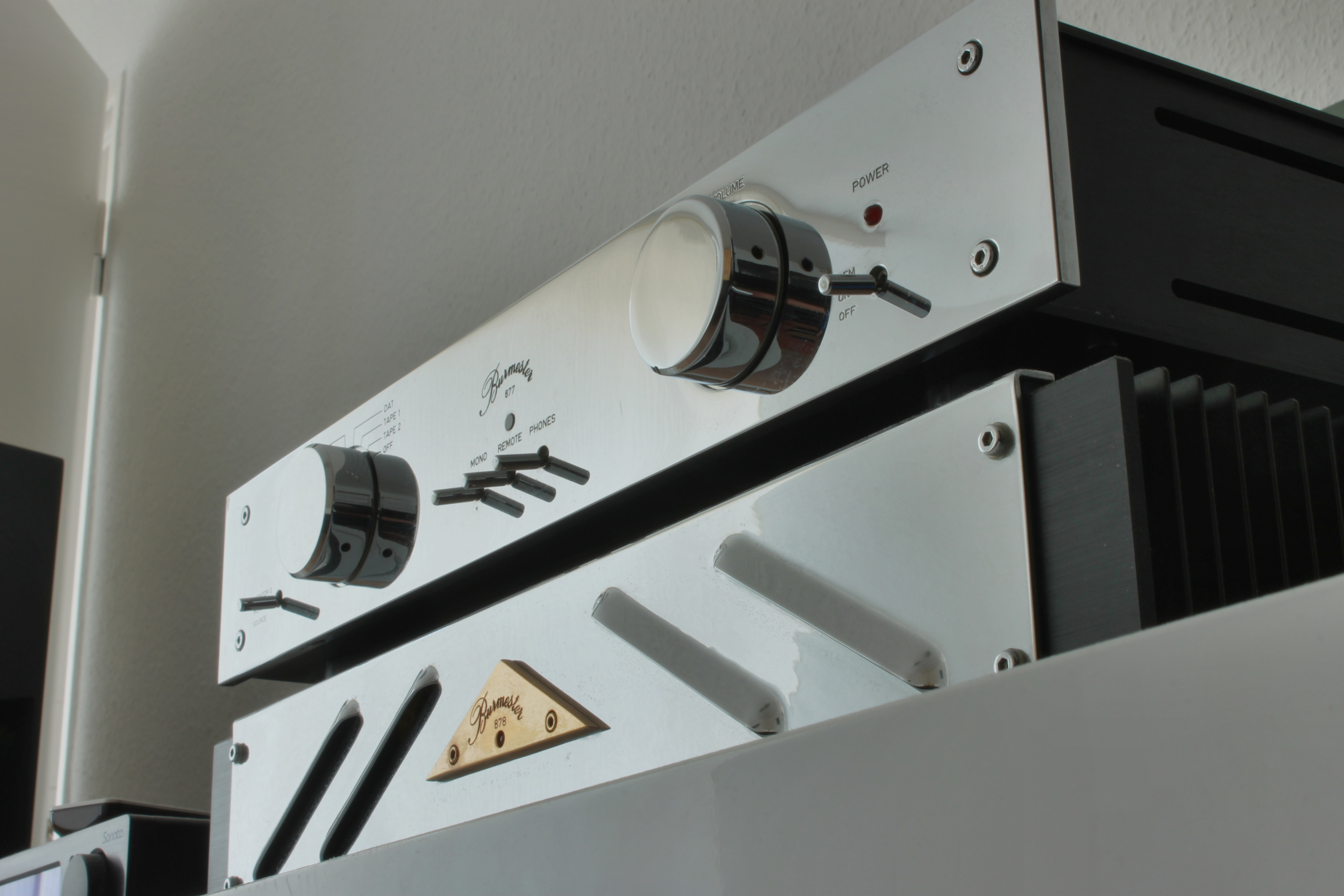 Burmester 877 pre-amplifier and 878 power amplifier (matching numbers)